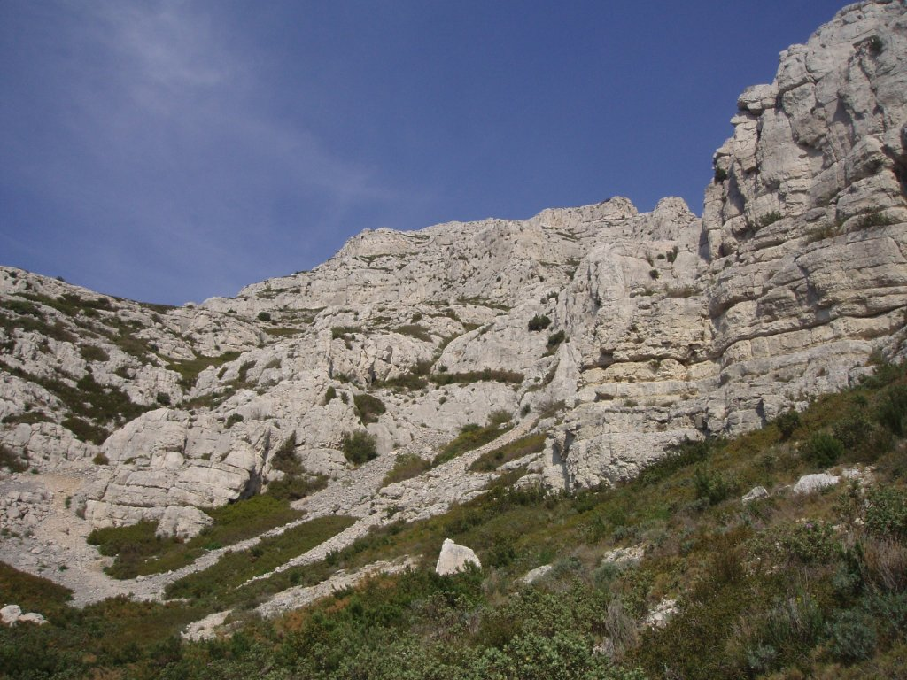 A calanque cliff with spare vegetation clinging to it.